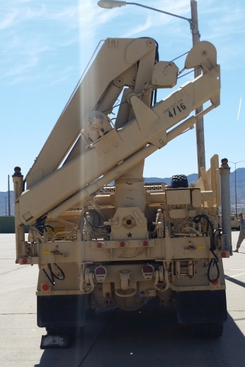 HEMTT with a crane, the GMT helps load and unload Patriot Missiles in the MIM-104 Patriot system